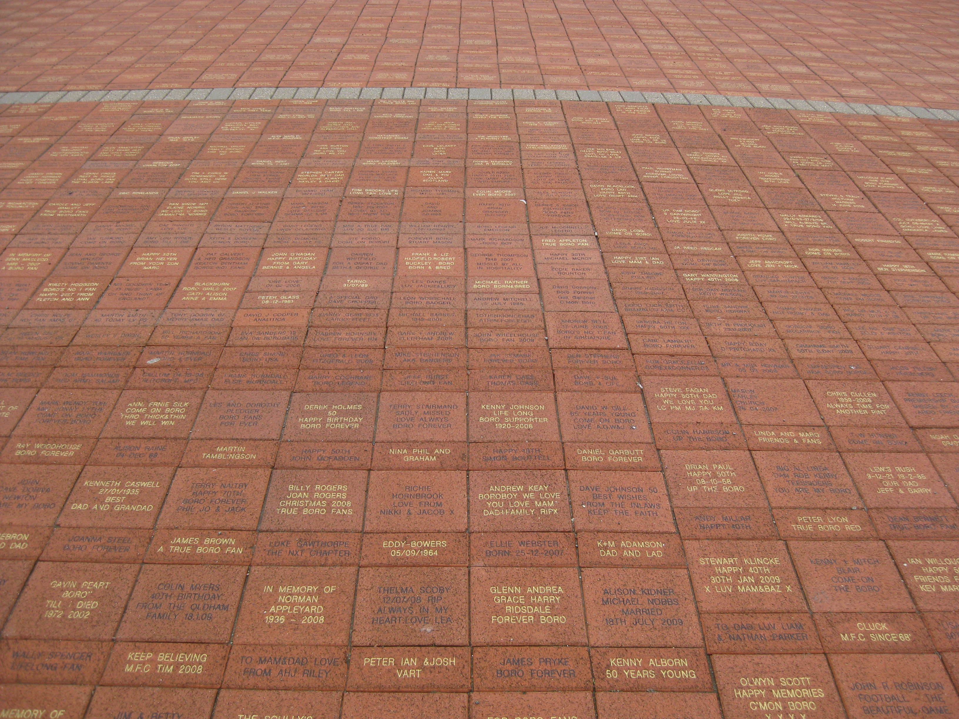 The Borobrick Road in front of the Middlesbrough F.C. Riverside Stadium. Fans make a donation to have a brick with a message, often in memoriam.